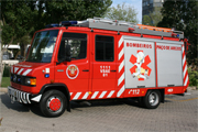 AHBVPA-VSAE 01